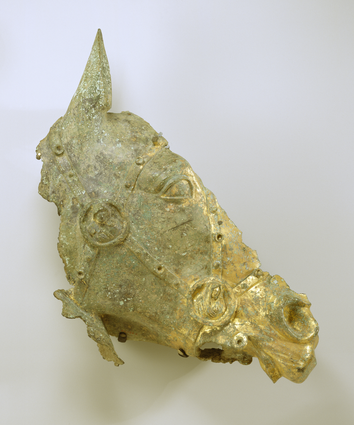 Originally part of a large equestrian monument, this head allows us to imagine what was a common sight for the ancient viewer: imposing public statuary that embodied the civic values of imperial Rome. Military officials were often depicted on horseback, and the rider that was represented on the monument was likely a member of the imperial family. Such statues contained large amounts of bronze, and most were melted down for reuse in weapons and other implements in later times of crisis.